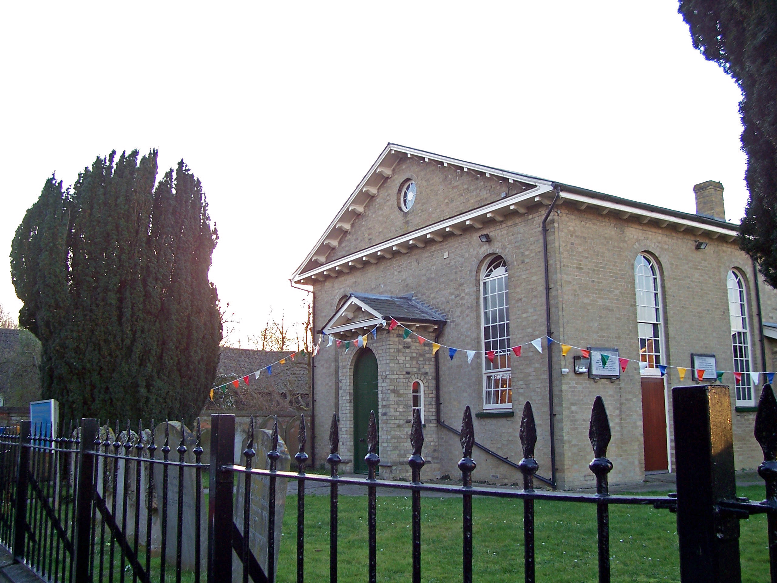 United Reform Chapel, Houghton, Cambridgeshire.